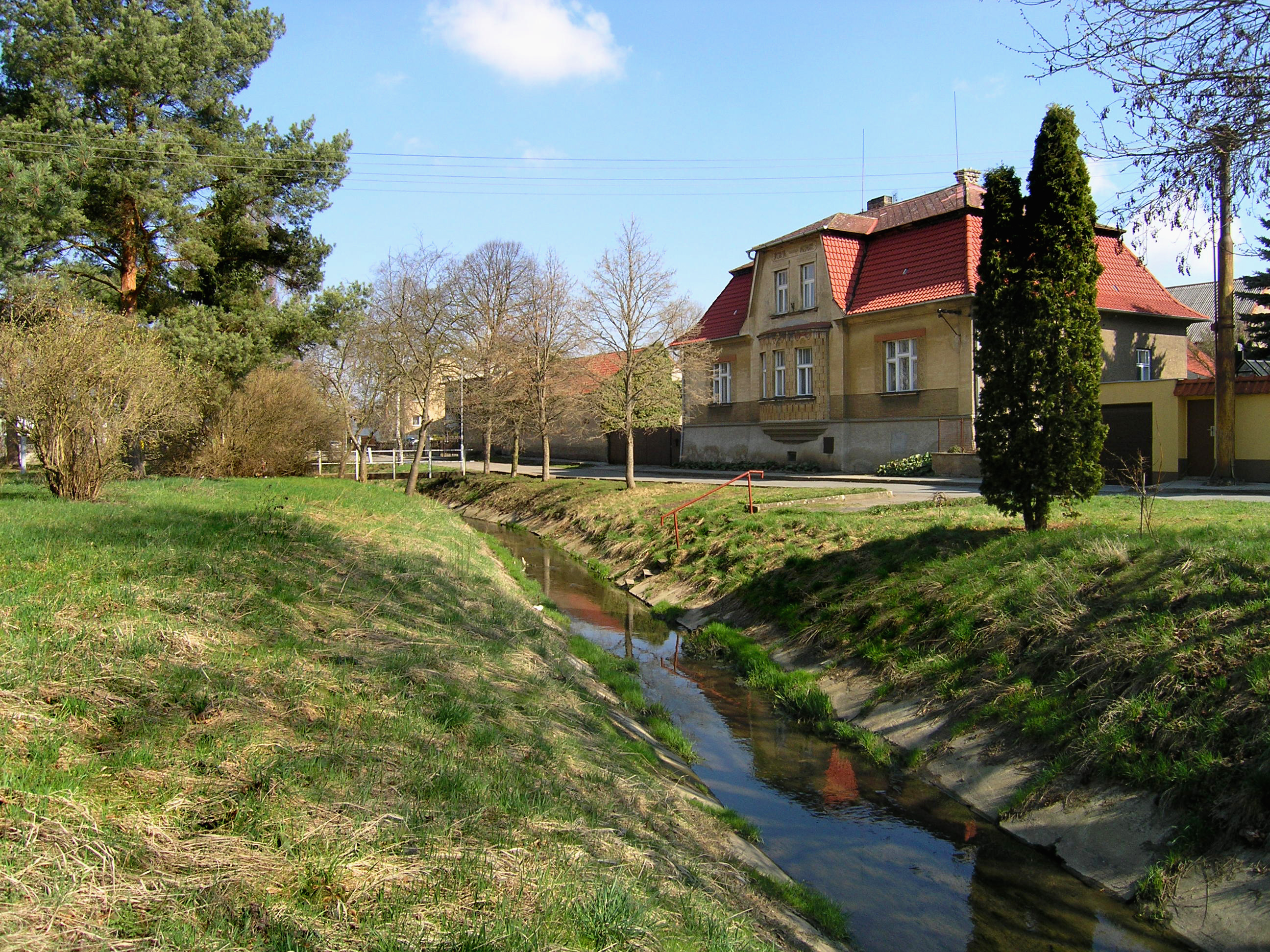 Radotínský Creek in Drahelčice, Czech Republic